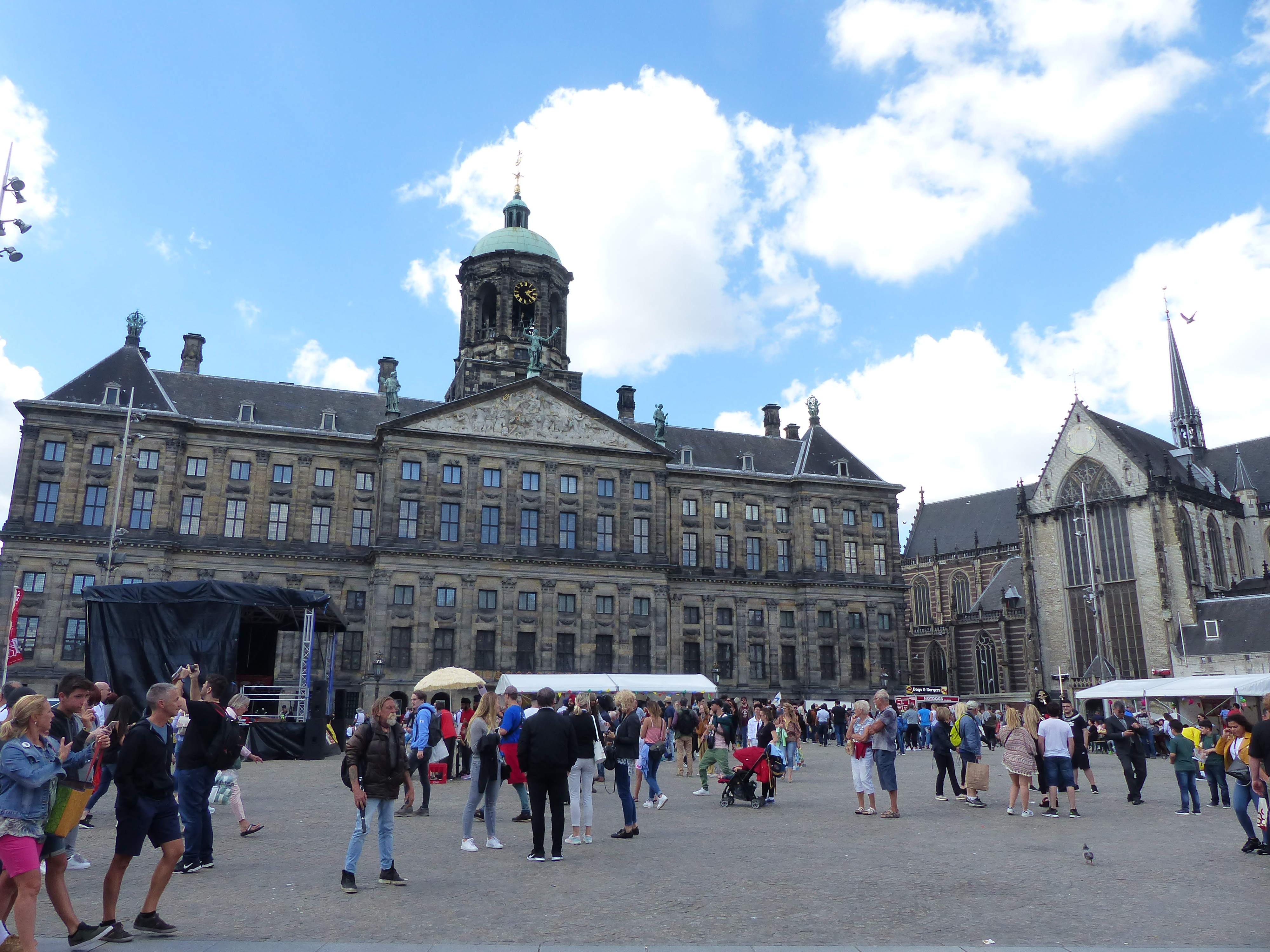 Dam square. Amsterdam, on the 11th of August, 2018.